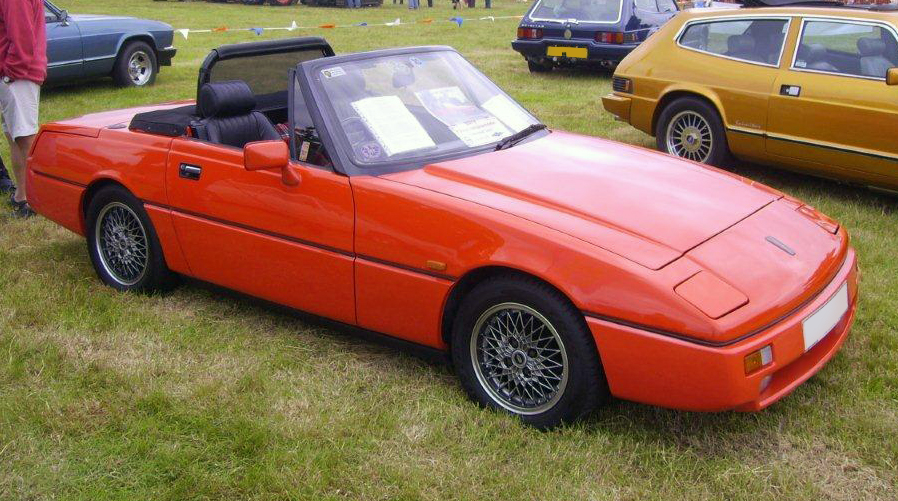 1990 Reliant Scimitar SST 1800 Ti at a show in the UK